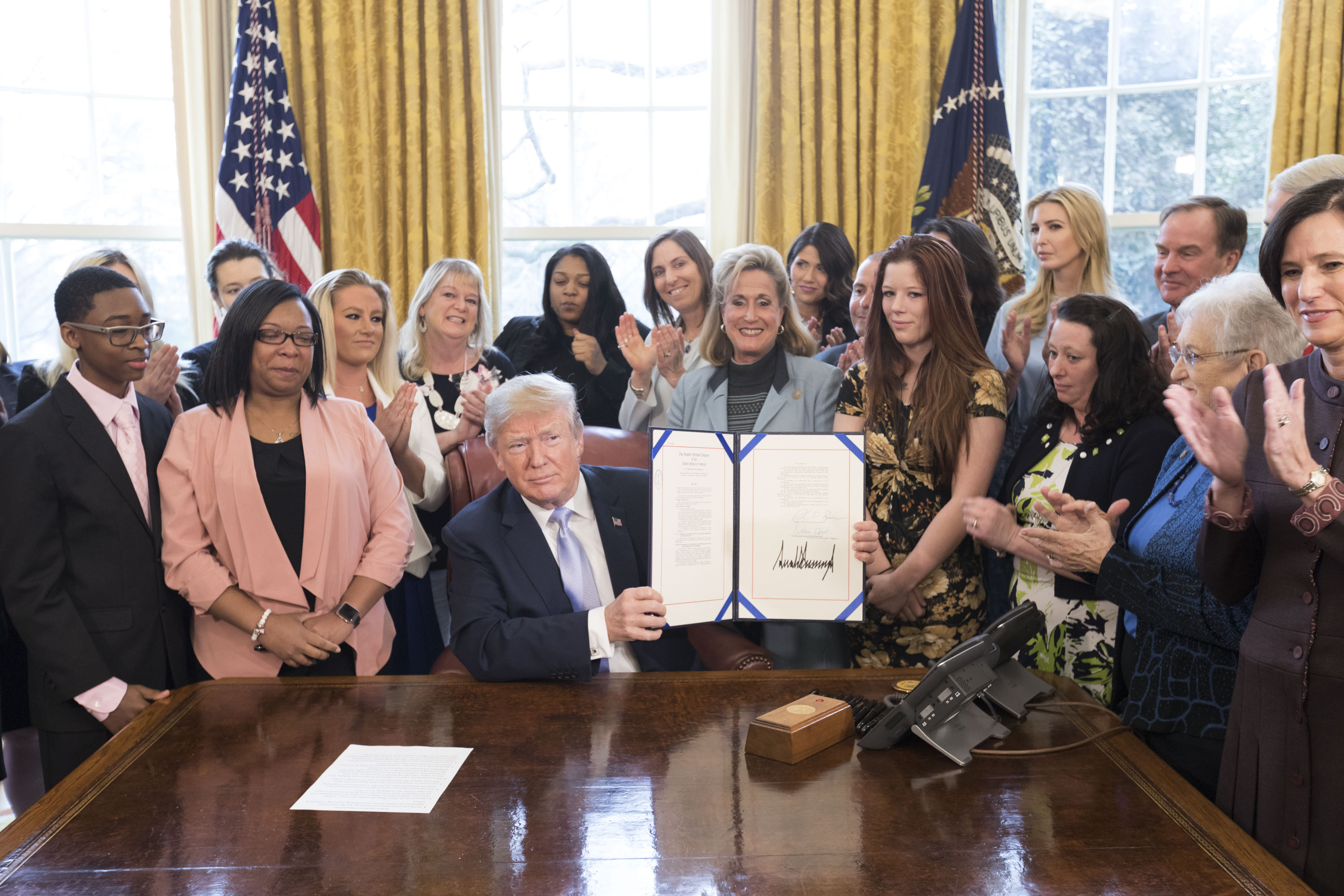 WASHINGTON - Congresswoman Ann Wagner (MO-02) and House Majority Leader Kevin McCarthy released the following statements after President Donald Trump signed H.R. 1865, the Allow States and Victims to Fight Online Sex Trafficking Act (FOSTA), into law. Congresswoman Wagner introduced FOSTA in Spring of 2017 and it was passed by Congress on March 21st, 2018. “For years, I have been working with law enforcement, advocates, and my colleagues to end modern day sex slavery. Today, we are crossing the finish line and bringing solace to survivors, and new tools to law enforcement to crack down on this scourge against humanity,” said Congresswoman Ann Wagner (MO-02). “I would like to thank Ivanka Trump for her continued advocacy on this issue and President Trump for signing FOSTA into law. With today’s bill signing we are finally decimating the online sex trafficking industry. FOSTA gives federal, state, and local prosecutors the tools they need to take down the websites selling our children with impunity. The law also provides a criminal deterrent that will ensure fewer people ever enter the sex trade, and it has already been effective in shutting down dozens of trafficking marketplaces. Most importantly, survivors across the United States are no longer alone, and justice is no longer out of reach.” “Thanks to the leadership of Representative Ann Wagner, our nation has made history on behalf human trafficking victims,” said House Majority Leader Kevin McCarthy. “Ann worked across party lines and on both sides of the Capitol to deliver a bill that supports victims and states so they can hold websites accountable that knowingly facilitate human trafficking. With President Trump’s signature, the Allow States and Victims to Fight Online Sex Trafficking Act will bring us closer to ending this horrific crime.”